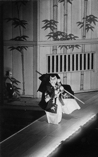 Enō Ichikawa (1888–1963) as benkei